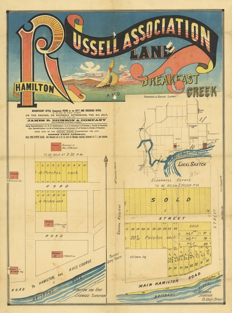 Creator: James R. Dickson & Co.; Hamilton & Raff. Location: Hamilton and Breakfast Creek, Brisbane, Queensland. Description: Plan of allotments to be sold by public auction Saturday 9th July, -. Land for sale is resubdivisions 1 to 16 of allotment 5 of portion 1, Parish of Toombul. Also resubdivisions 1 to 38 of subdivisions of allotment 10 of portion 2, Parish of Toombul. Published by Gordon and Gotch lithographer (Brisbane). 86 x 54 cm. Map includes conditions of purchase, and a brief description of the land and public transport available. Read more about SLQ's map collections: View this image at the State Library of Queensland: Information about State Library of Queensland’s collection: You are free to use this image without permission. Please attribute State Library of Queensland.